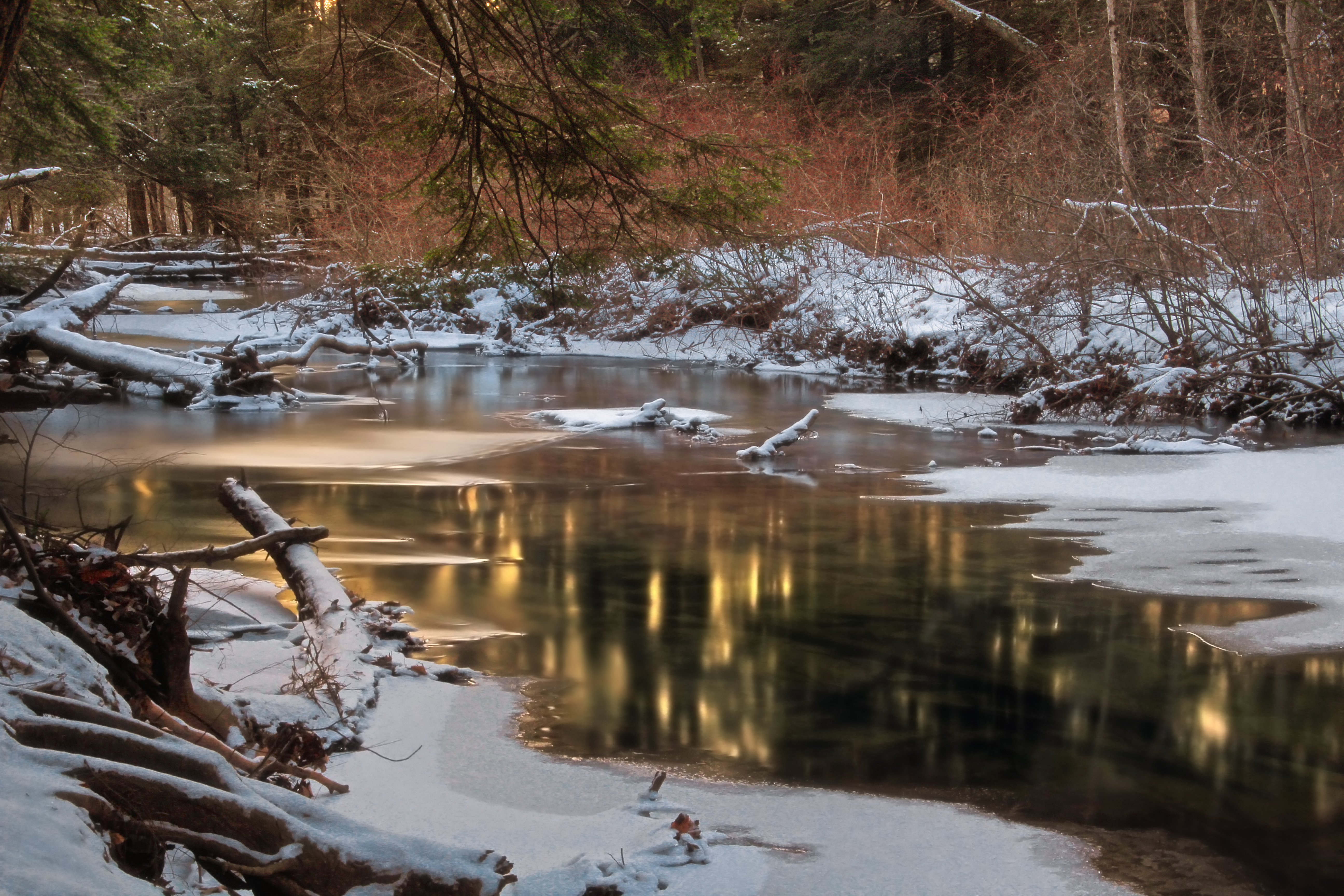 Partially frozen Nescopeck Creek within Nescopeck State Park.